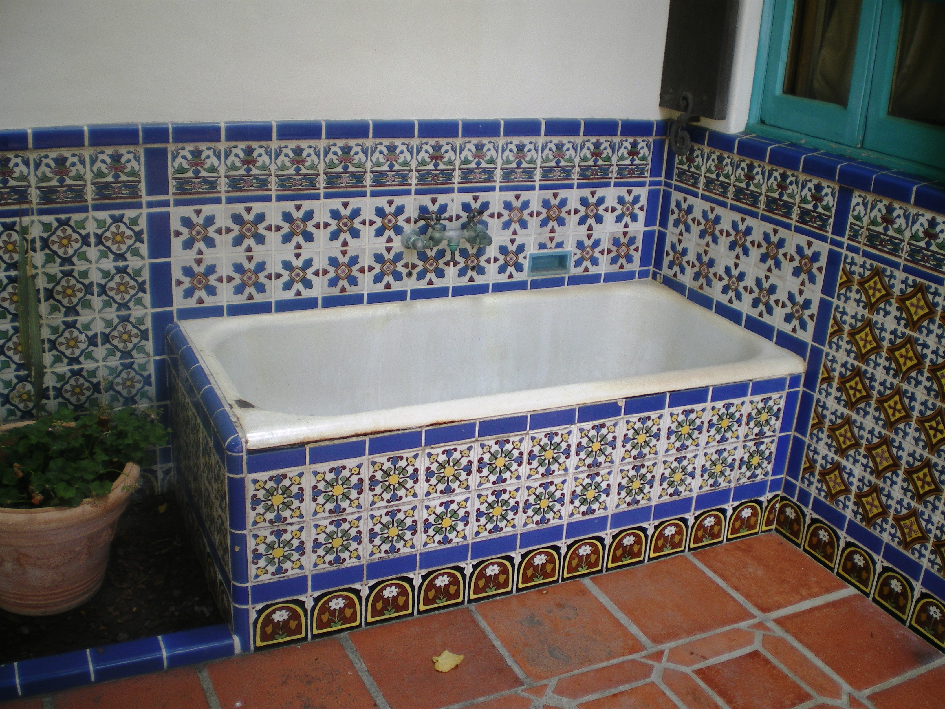 Outdoor dog bath at Adamson House, Pacific Coast Highway, Malibu, California